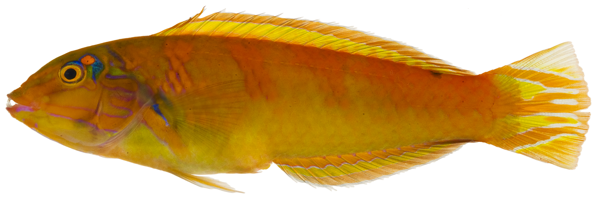 Halichoeres poeyi (Steindachner, 1867)—blackear wrasse, 87.9 mm SL, terminal male color phase. Photo by JT Williams.